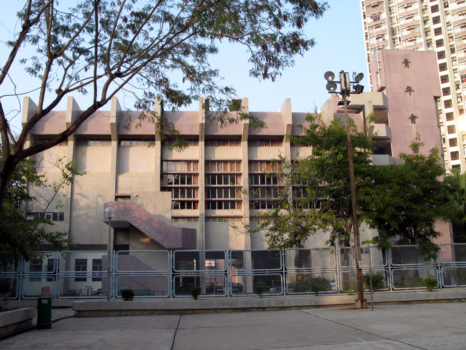 HK MOS YMCA College